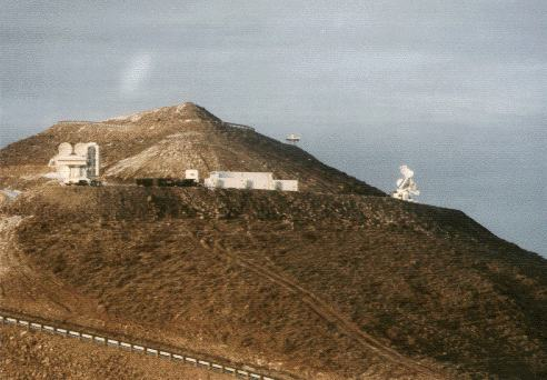 Antelope Peak high value high threat simulator. The radar on the left is a FAN SONG radar, which is used with the SA-2, and a Low Blow to the right.